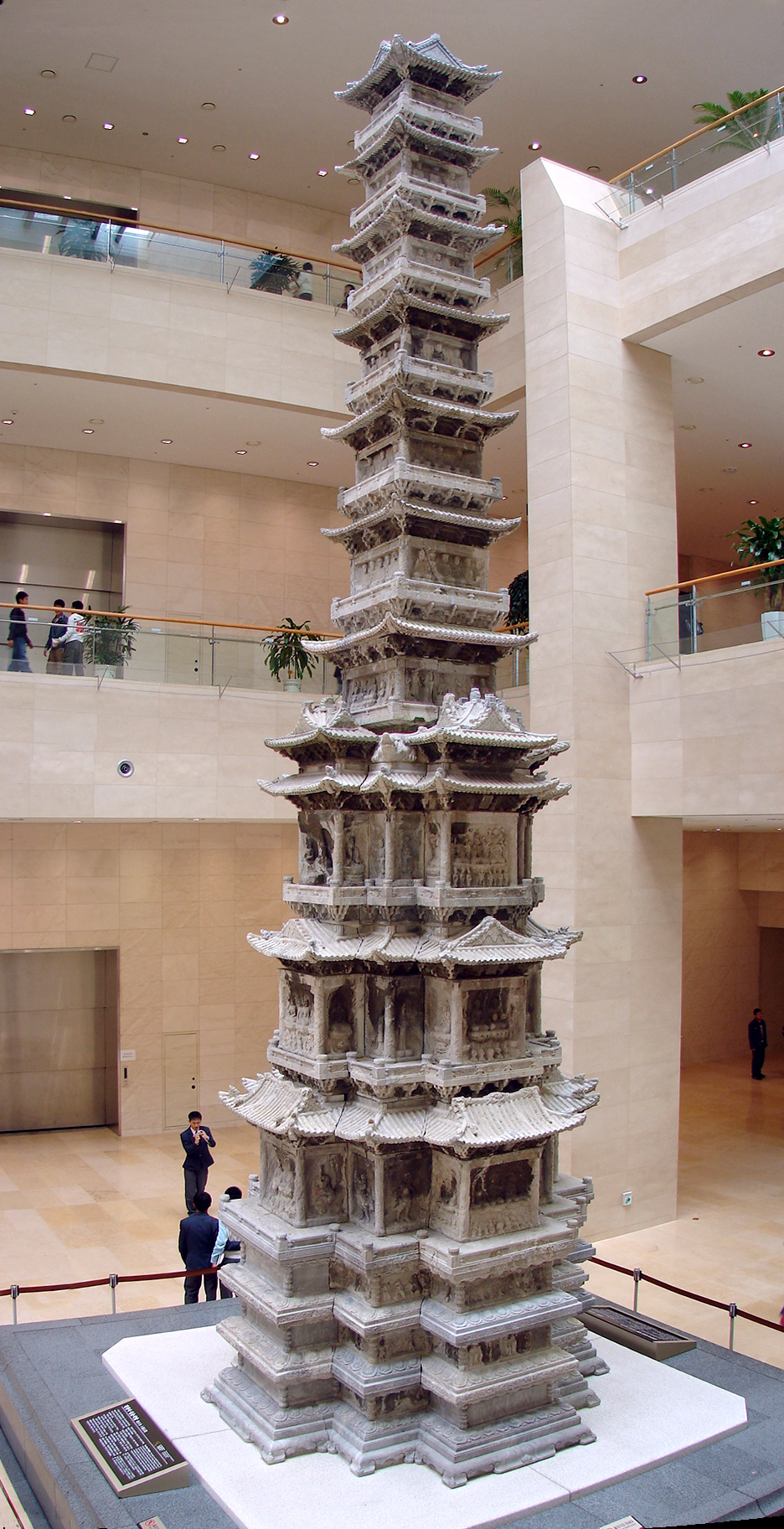 Gyeongcheonsa Pagoda is a 10 story high marble pagoda made in 1348 that now sits in the National Museum of Korea. Because the pagoda rests on a three-tiered foundation it is sometimes mistakenly to believed to thirteen stories in height. The pagoda stands 13.5 meters/42.6 feet high had has been designated National Treasure #86